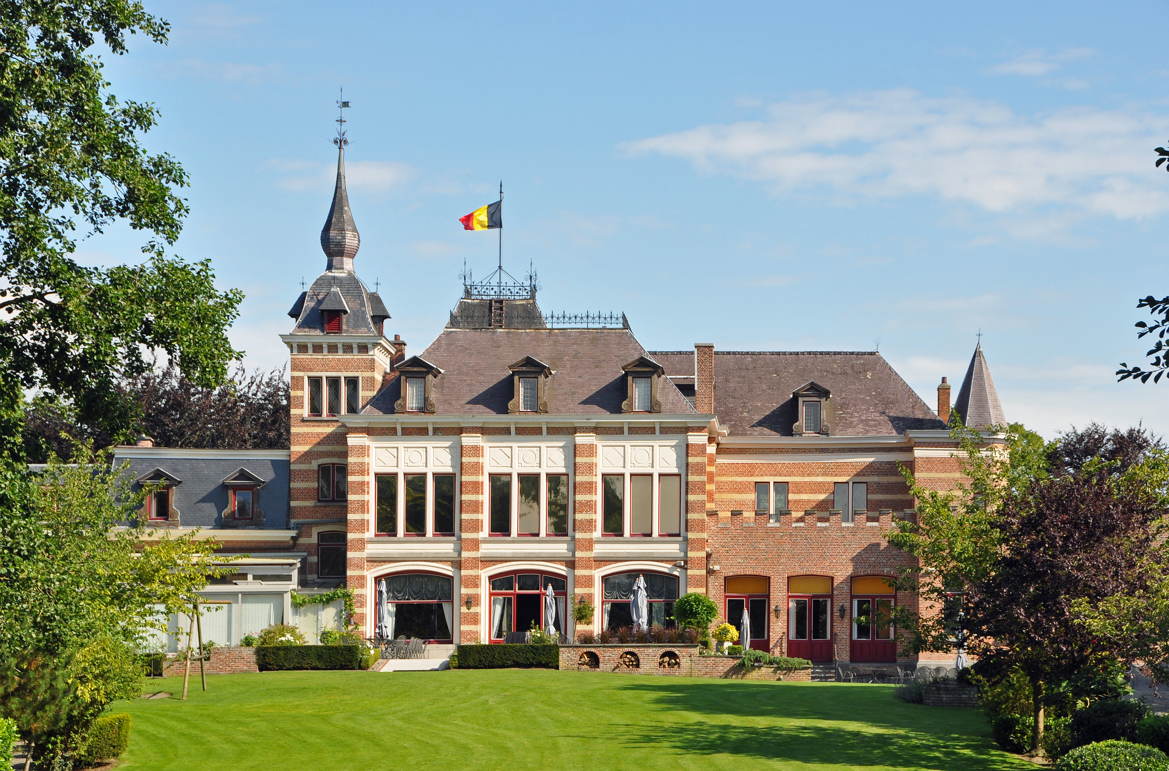 Moerkerke (municipality of Damme, province of West Flanders, Belgium): the castle